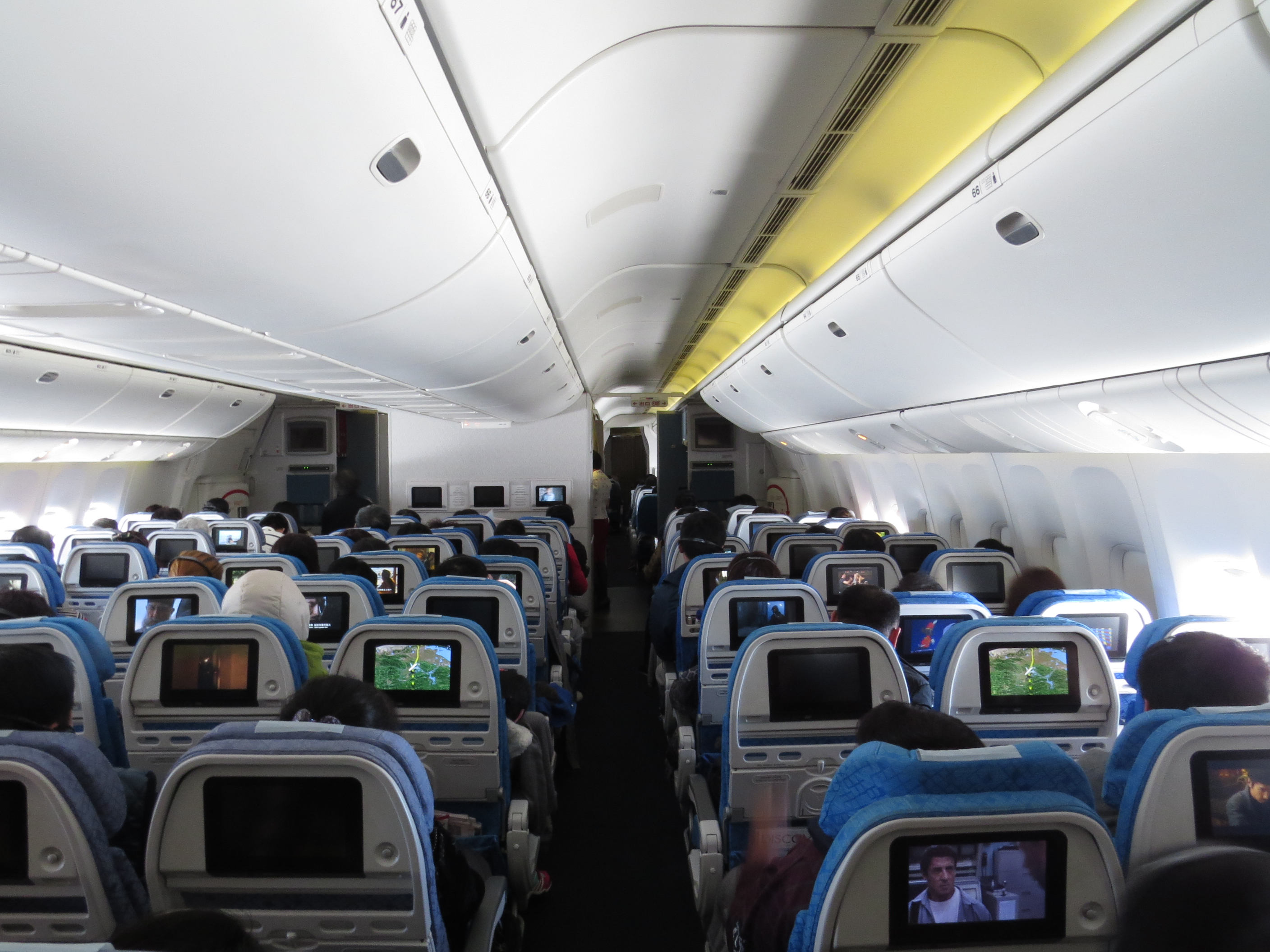 Cathay 391 enroute from Beijing to Hong Kong. This is the newest cabin of Cathay Pacific.